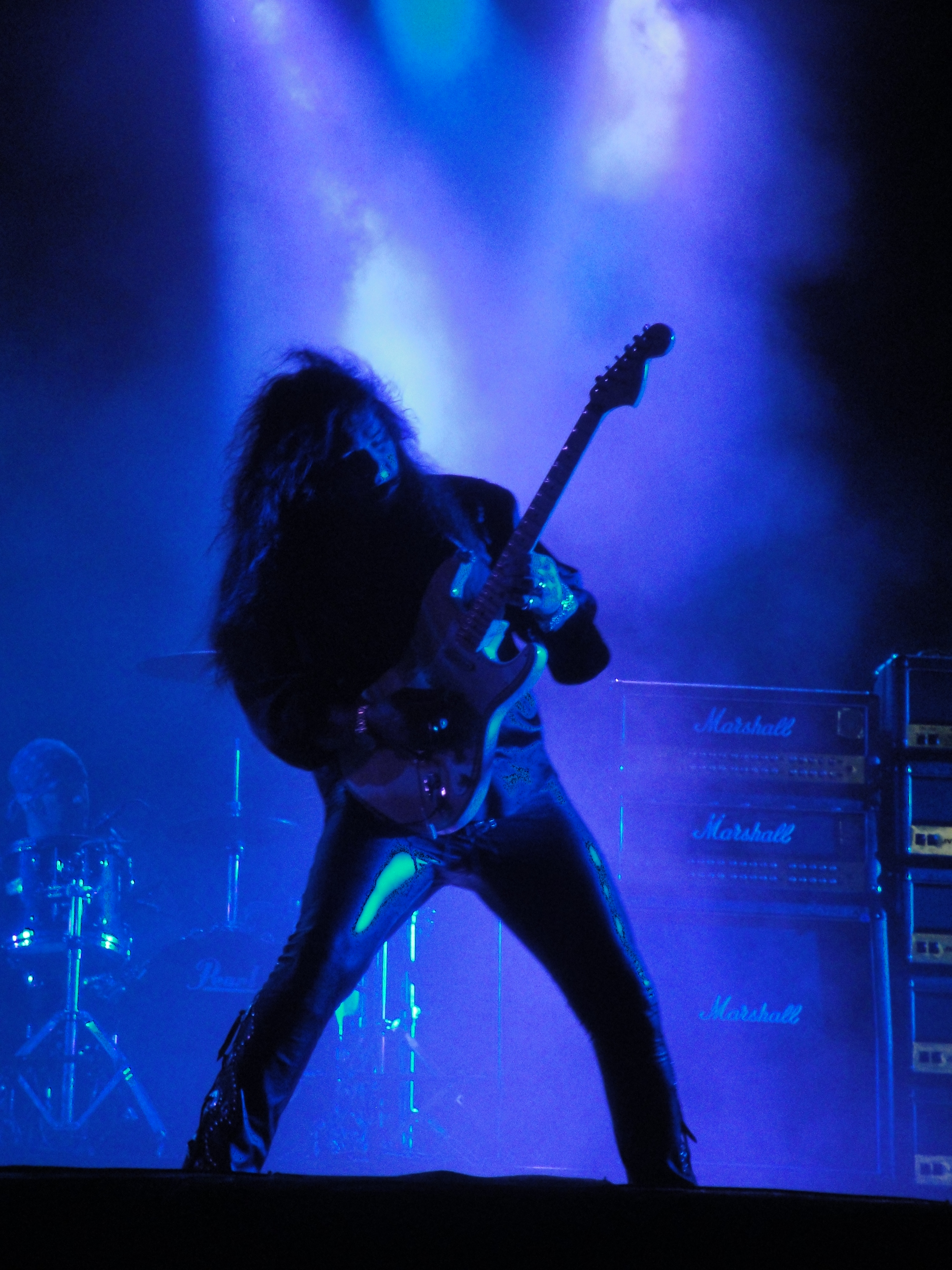 Photo of Yngwie Malmsteen playing guitar in Gävle, Sweden, July 7th 2012